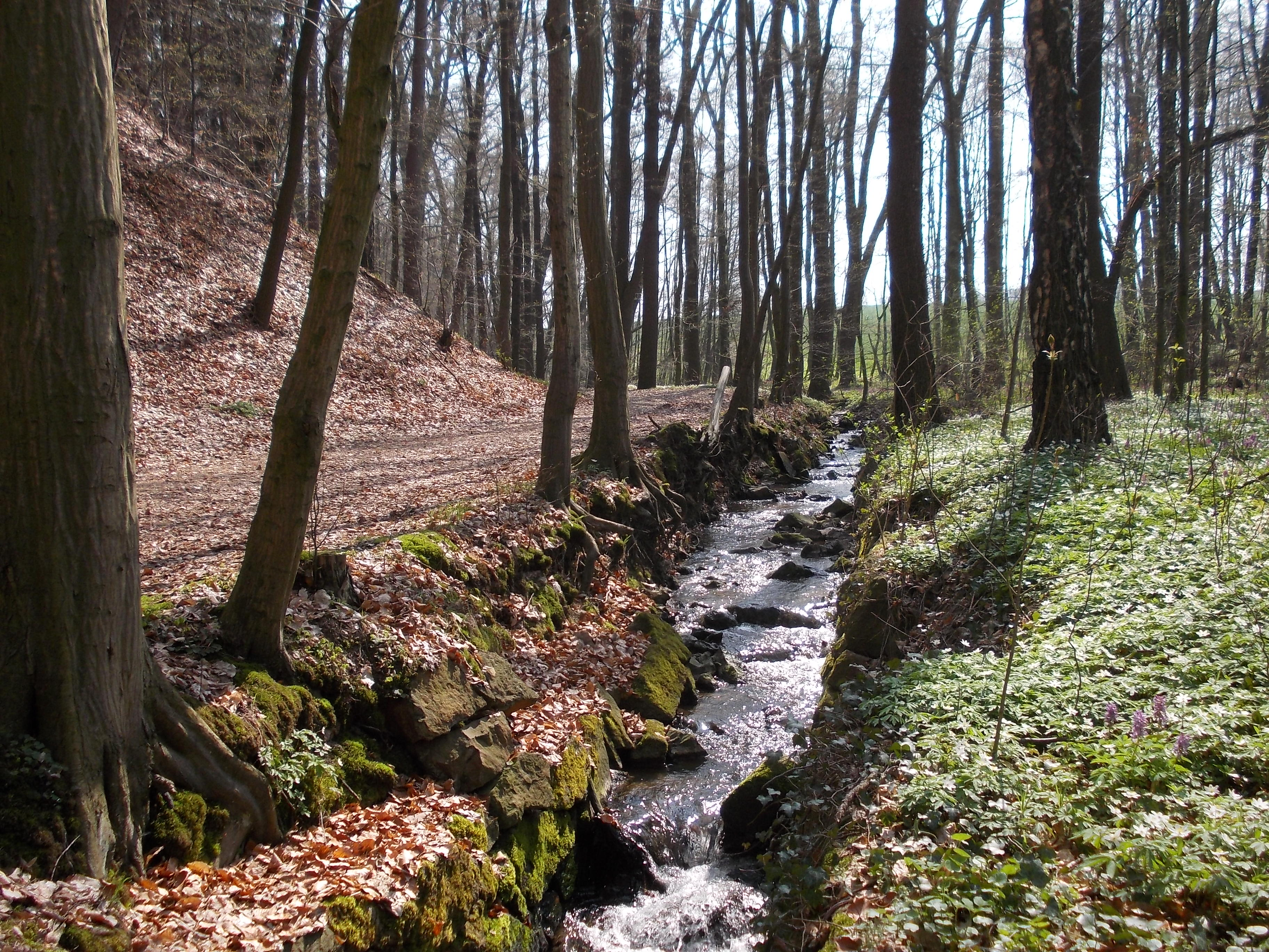 Wallbach stream, also called Mönchbach or Koppenhölzchenbach, in he Eichberg naure reserve near Leisnig (Mittelsachsen district, Saxony)